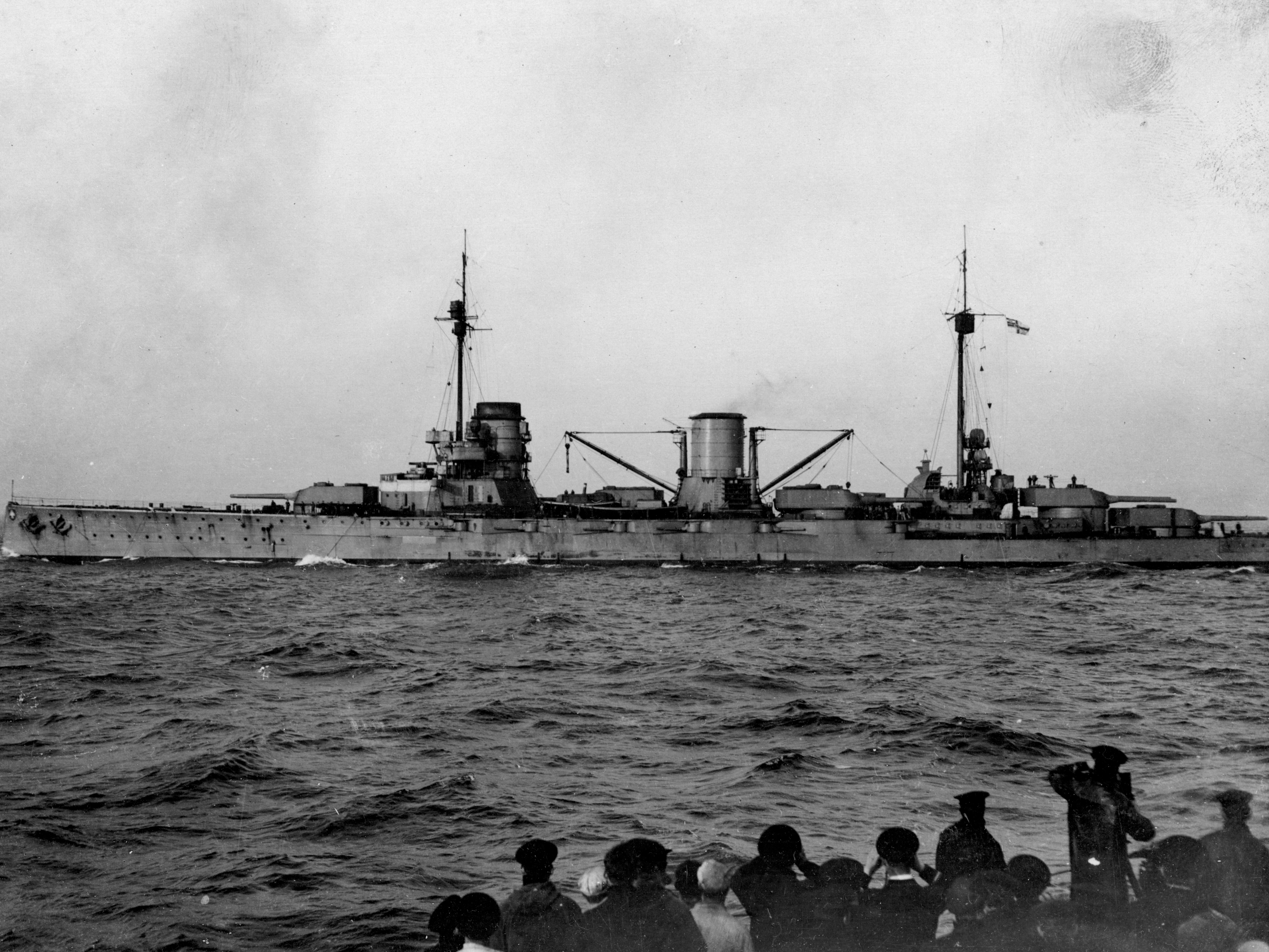 SMS Moltke surrendering at Scapa Flow. Ship can be identified by the coat of arms visible on the bow. Caption provided by National Archies incorrectly identifies the ship as SMS Seydlitz.